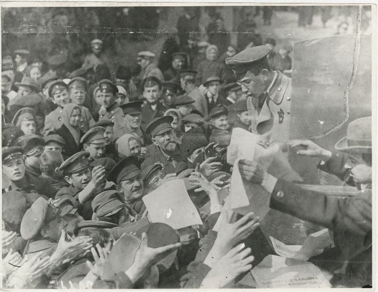 The distribution of Newspapers. April 1917. Photo by A. I. Savelyev